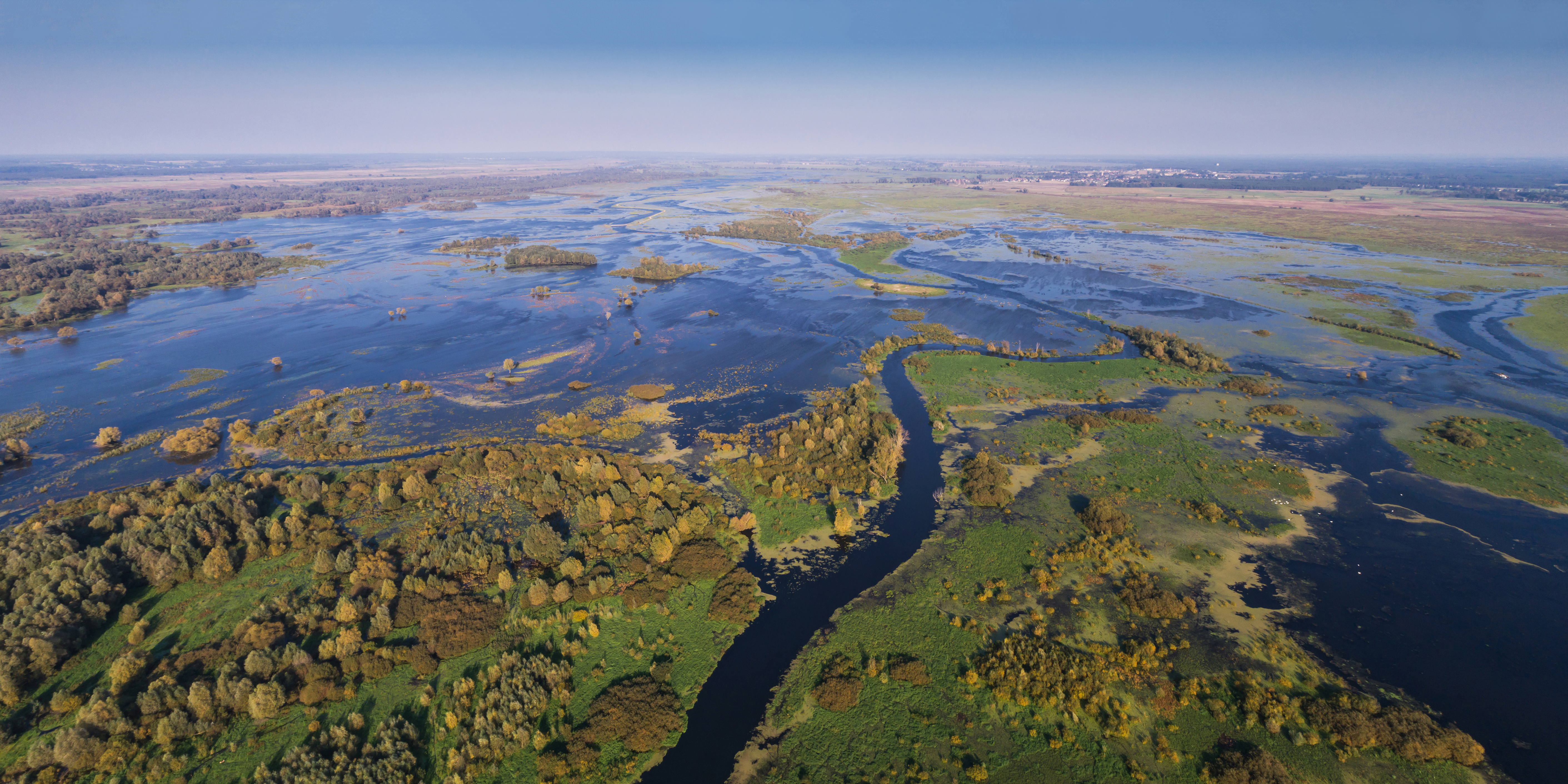 Ujście Warty National Park near Kostrzyn nad Odrą (Poland)